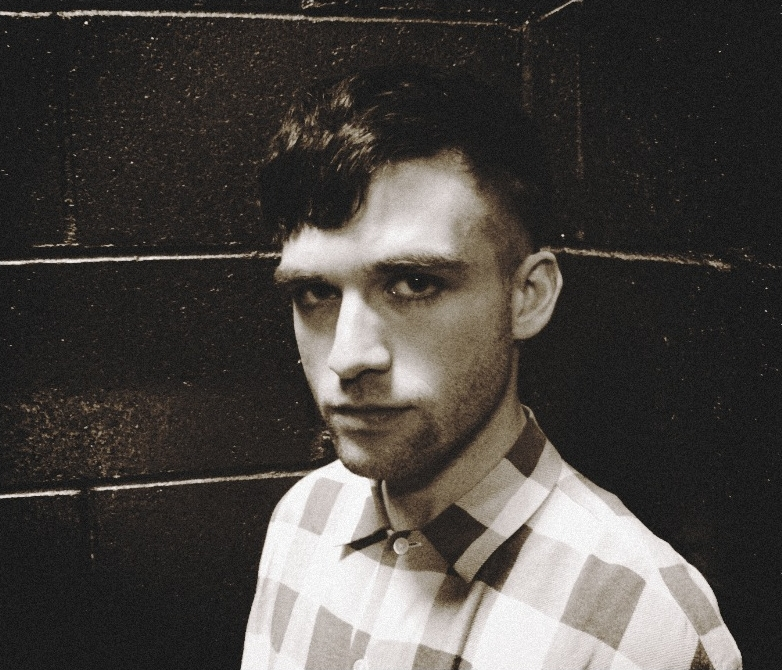 Chicago, IL, summer 2011